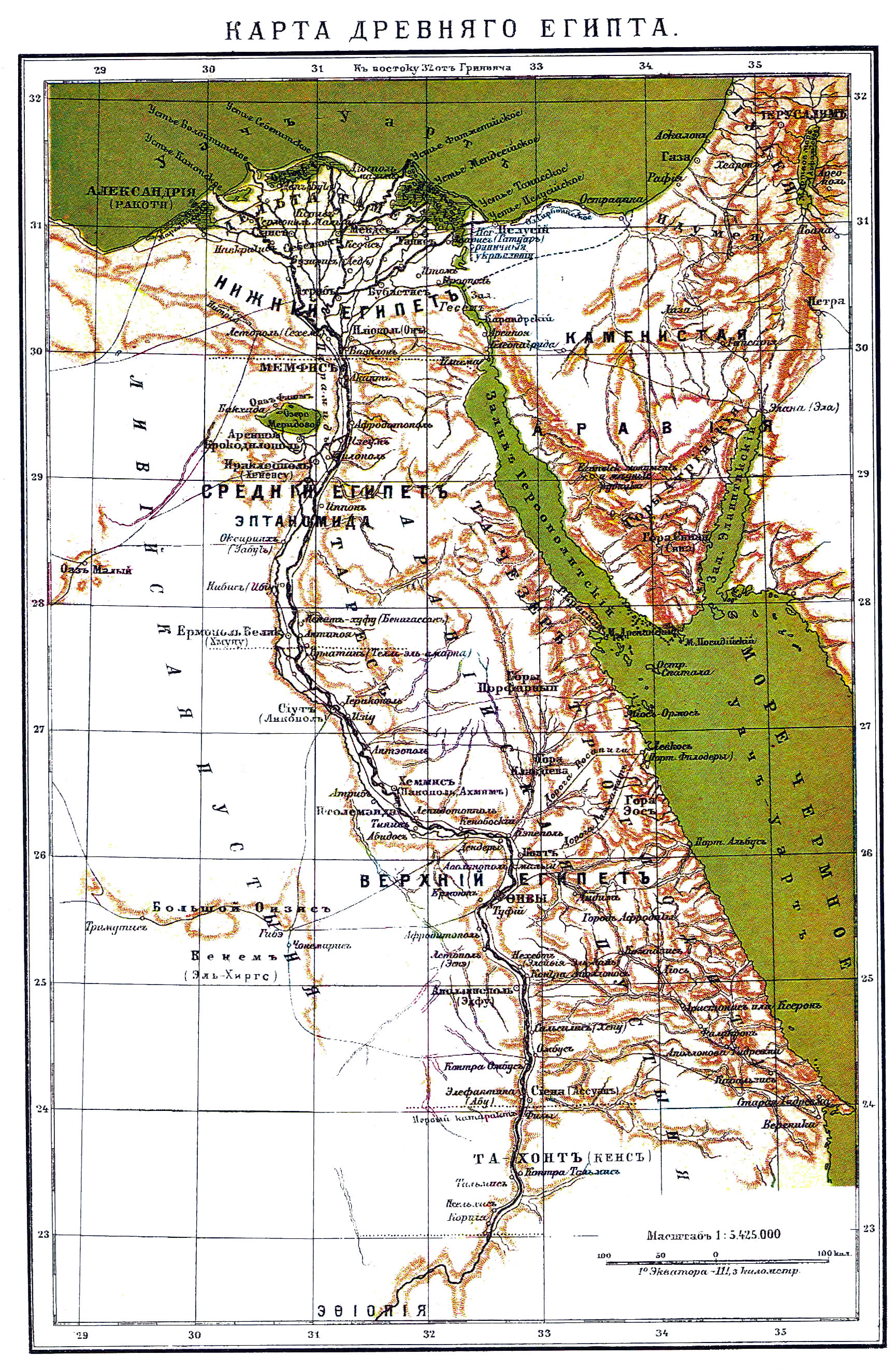 Illustration from Brockhaus and Efron Encyclopedic Dictionary (1890—1907)